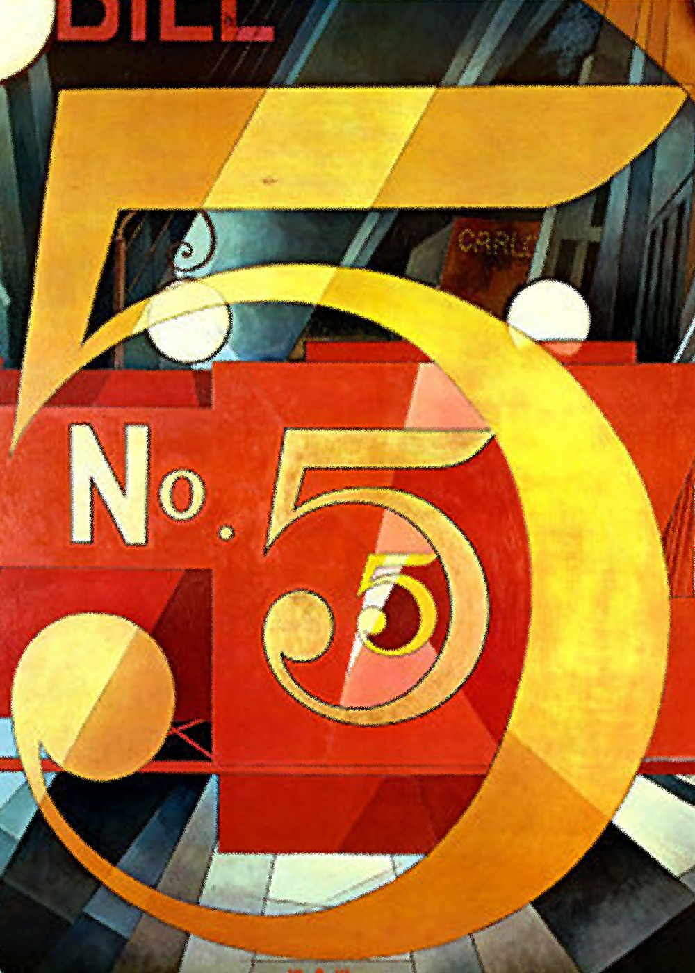 Charles Demuth - Figure 5, The Metropolitan Museum of Art, New York City